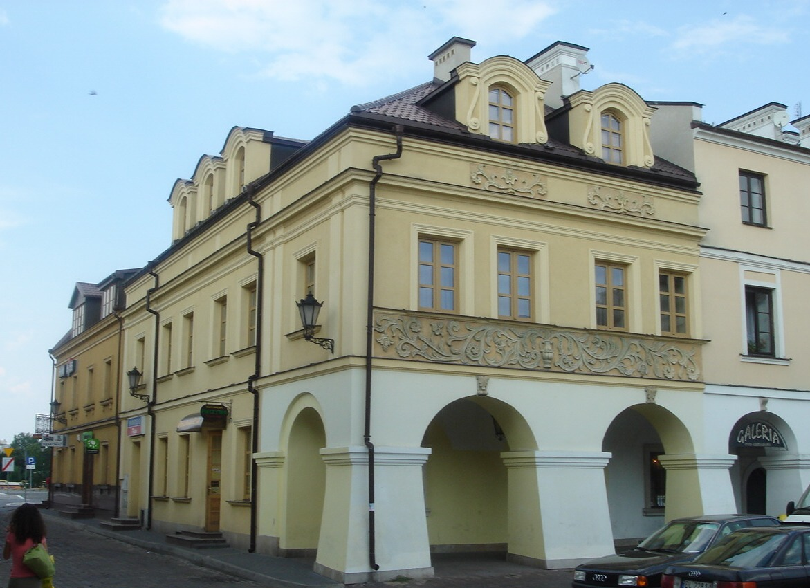 "Rabbi's House" tenement in Salt Market Sq. in Zamość, Poland